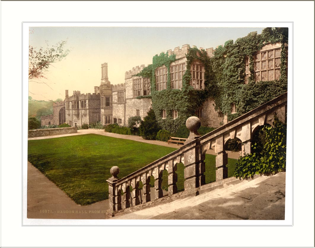 Haddon Hall steps Derbyshire England